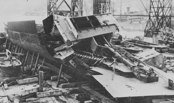 IJN Michitsuki